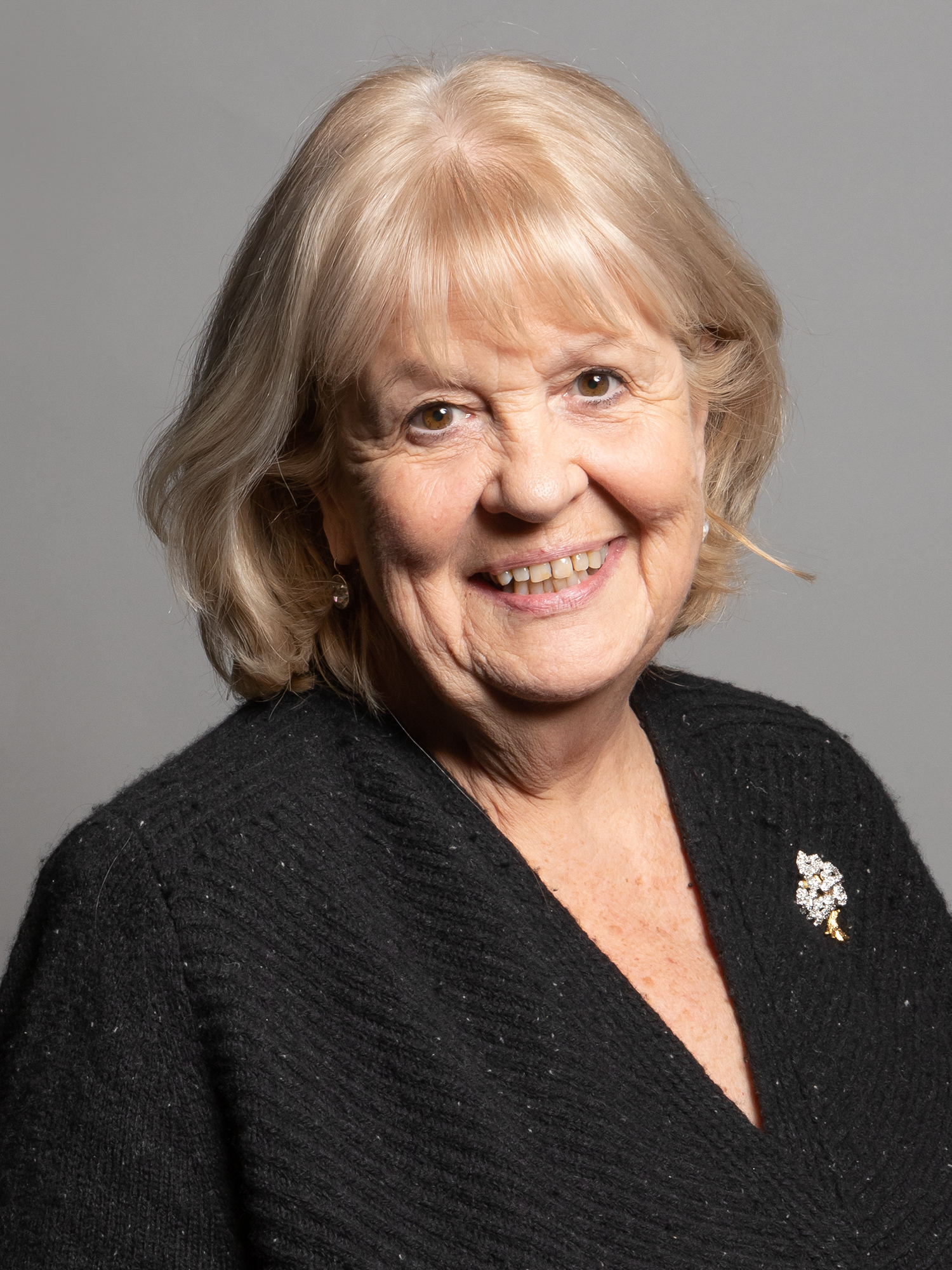 Official portrait of Rt Hon Dame Cheryl Gillan MP 3×4 portrait of Dame Cheryl Gillan